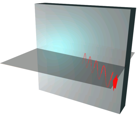 Illustration of a reflection with a s-polarized wave.